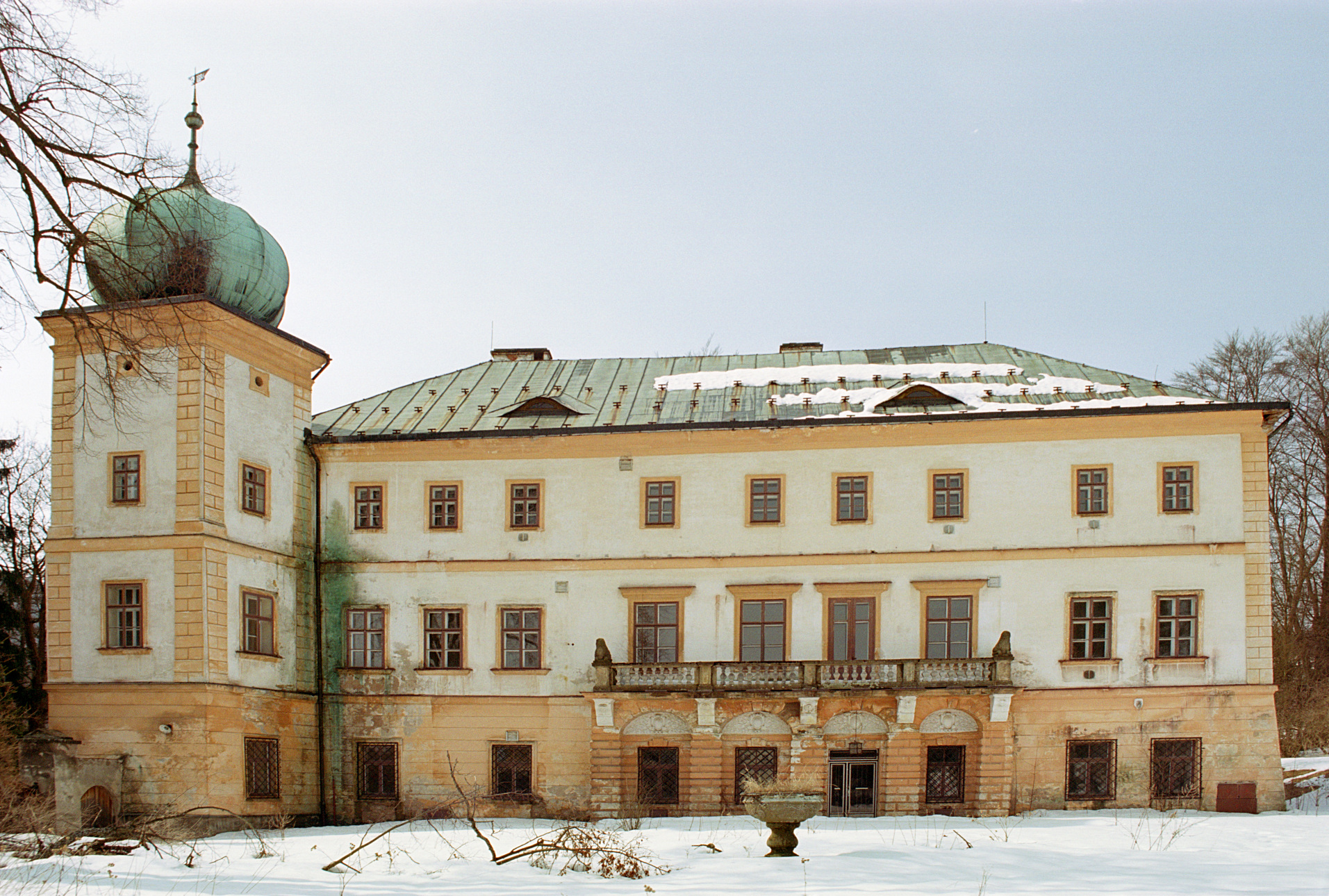 castle of Adršpach (Adersbach) in the Czech Republic